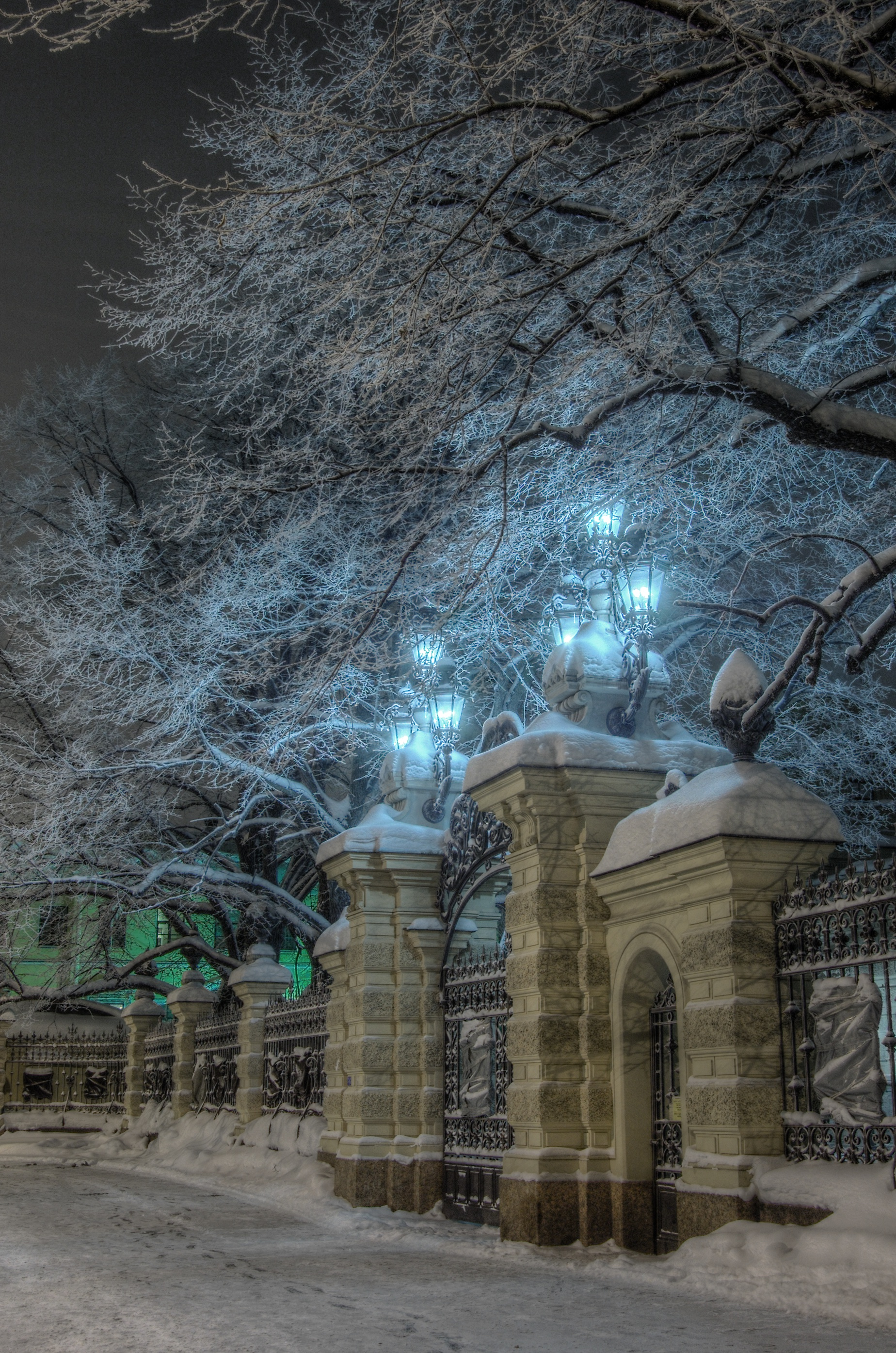 Saint Petersburg, Gates to the Palace of Grand Duke Alexei Alexandrovich